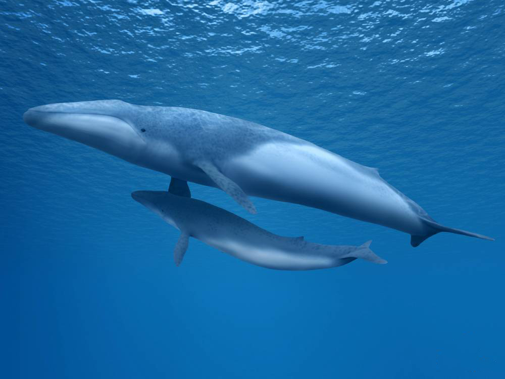 Life restoration of Parietobalaena yamaokai.